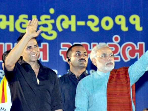 Actor Akshay Kumar and politician Narendra Modi in Vadodara at the inagugration of Khel Mahakumbh 2011.